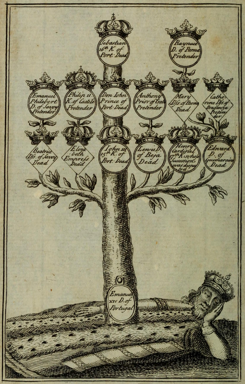 Frontispiece of a 1735 English edition of Vertot's The History of the Revolutions of Portugal". It depicts a family tree of the descendants of King Manuel I of Portugal, and it highlights players during the Portuguese succession crisis of 1580.